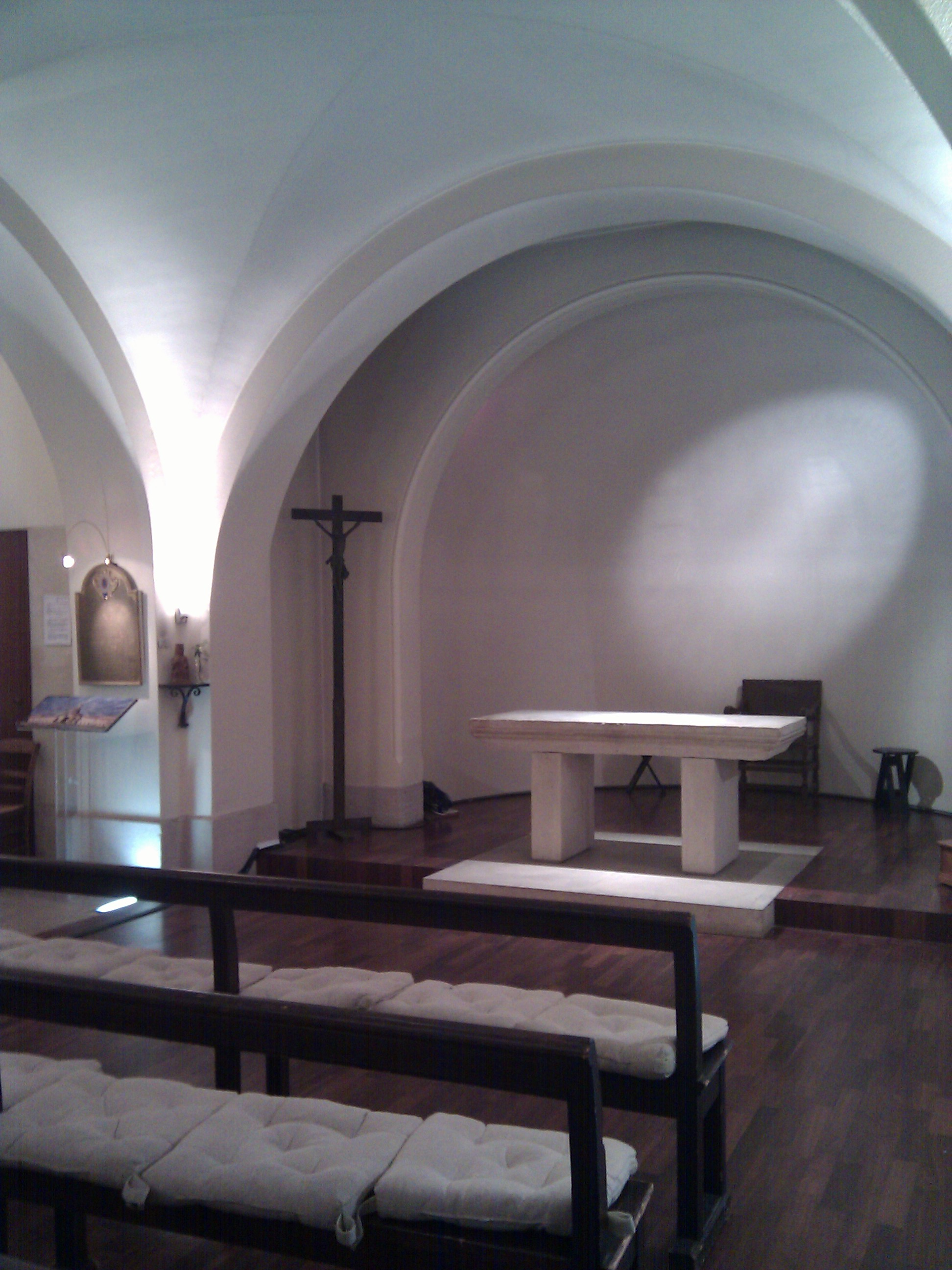 Crypt of the martyrium of St Denis in Montmartre